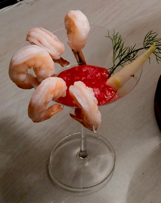 Flash-boiled peeled shrimp rest on the edge of a martini glass filled with store-bought cocktail sauce. Garnished with endive and dill.